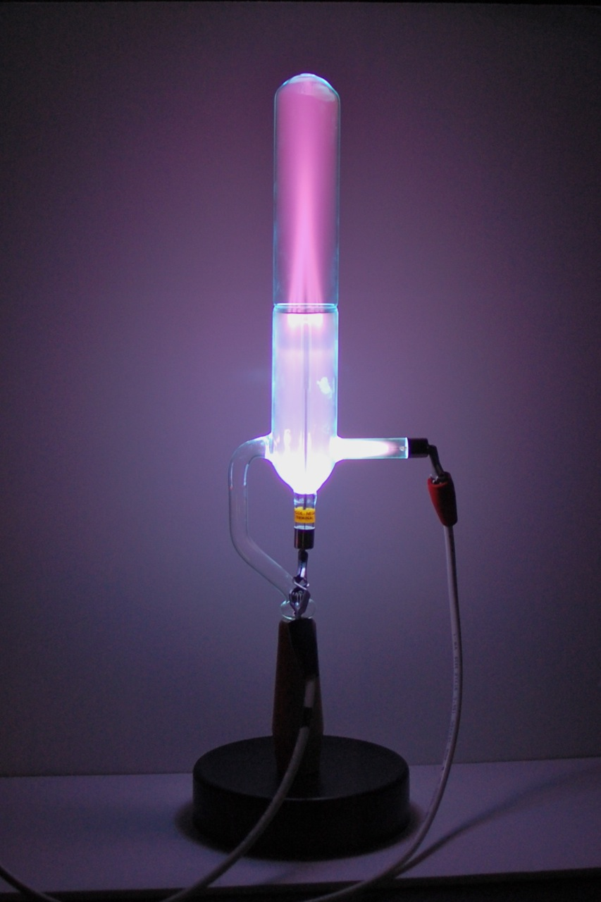 Anode ray (kanal ray) tube.